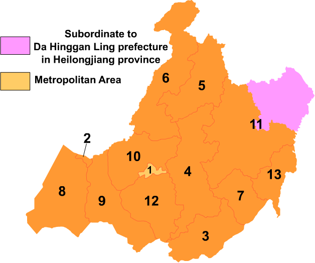 Map of Hulun Buir in Inner Mongolia